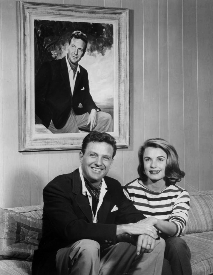 1961 photo of Robert and Rosemarie Stack at home issued by ABC-TV. Stack was the star of the ABC show The Untouchables at the time.